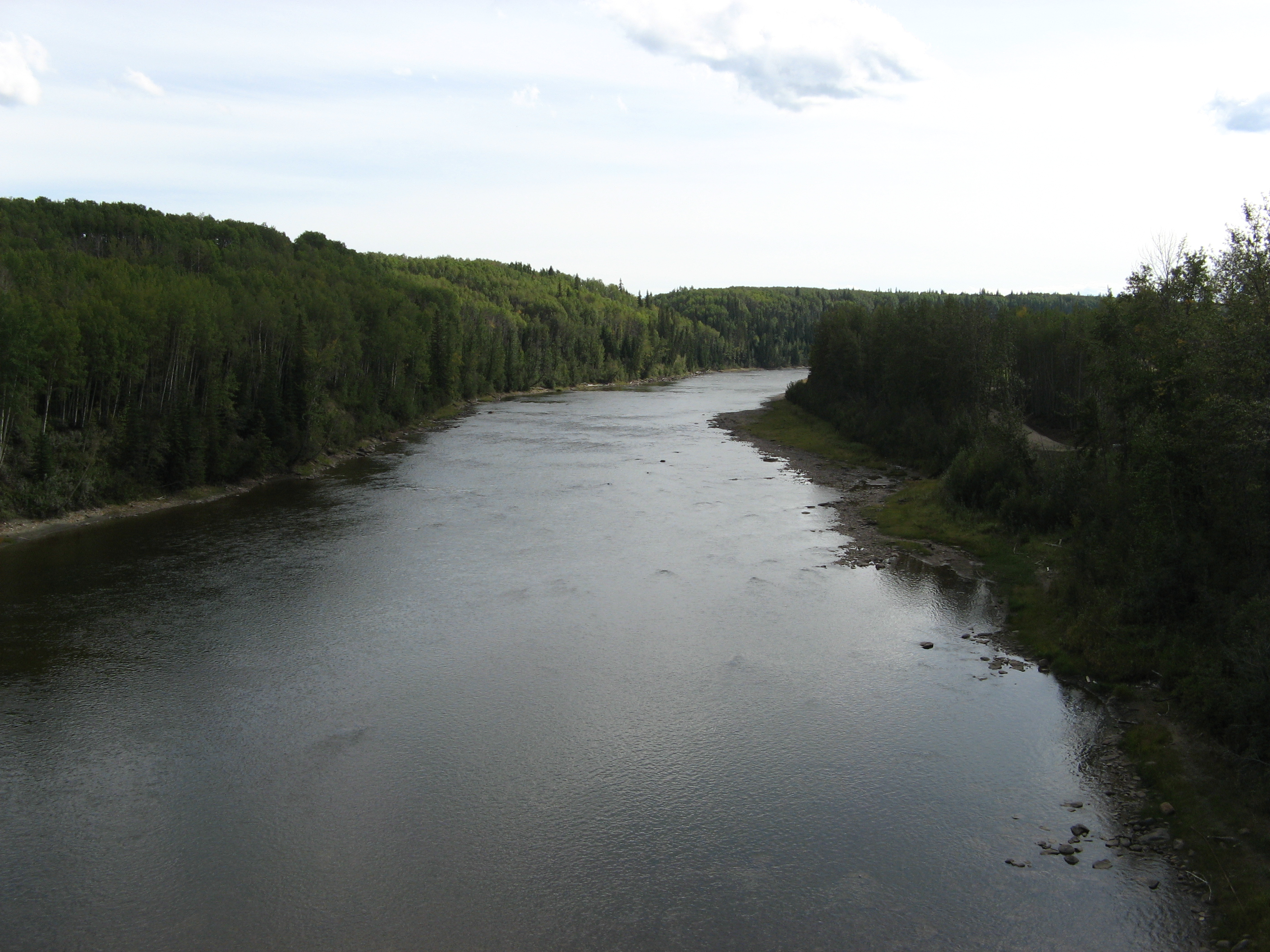 Erik Lizee